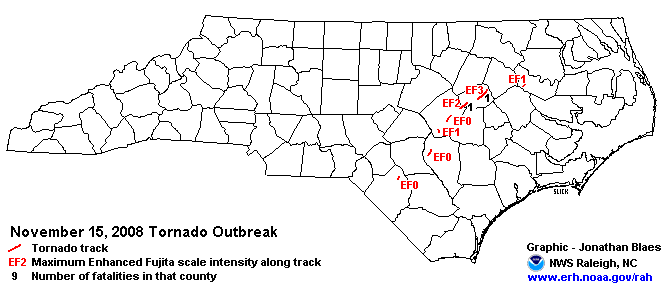 Tracks of the tornadoes in North Carolina on November 15, 2008